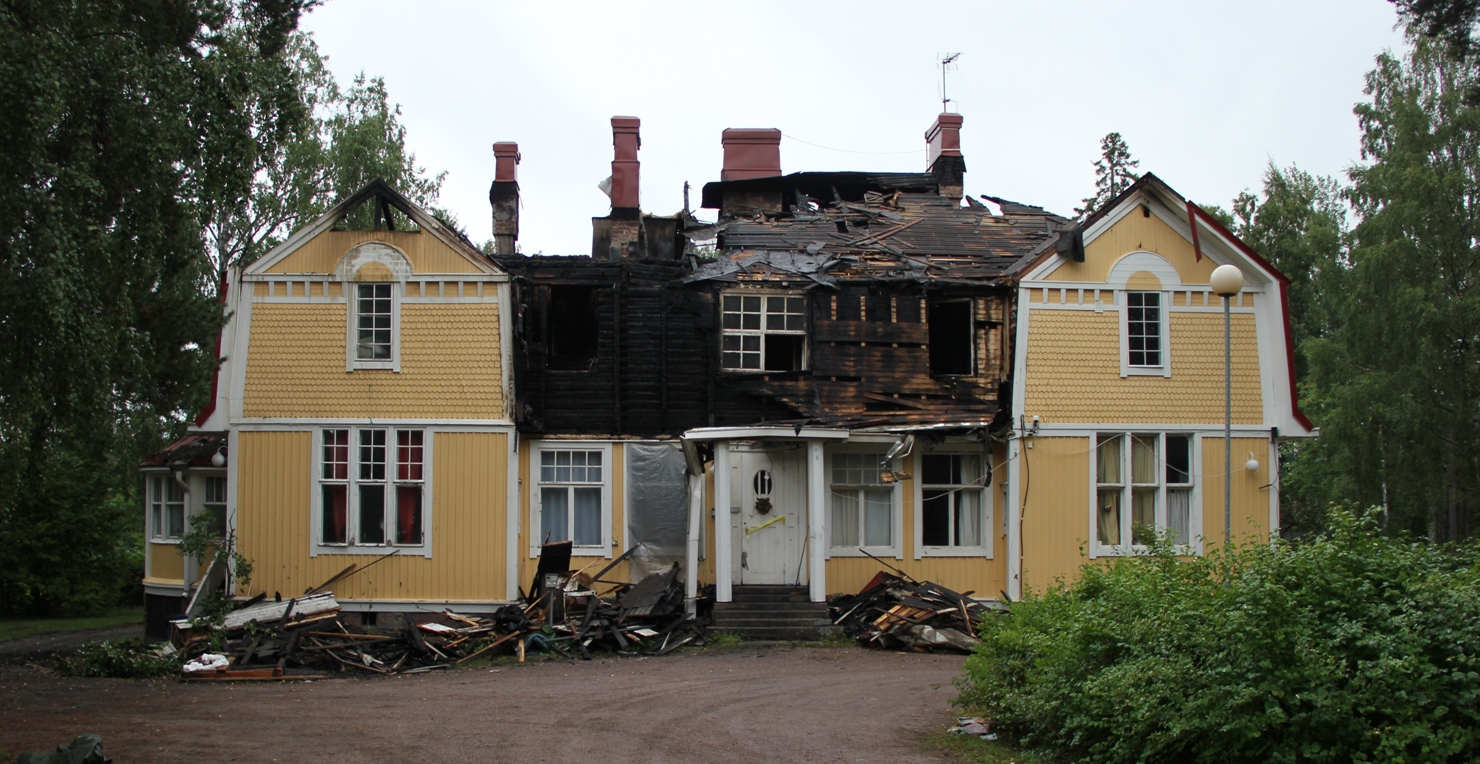 Villa Gahmberga, or Klostret after the fire in 2011